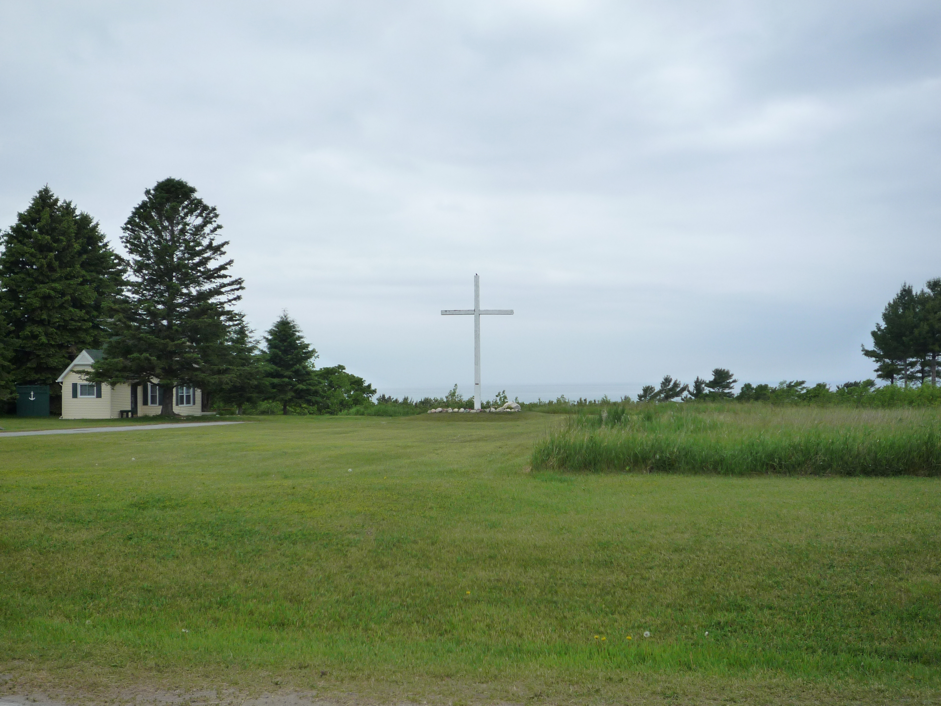 The cross, Cross Village, Michigan, USA.